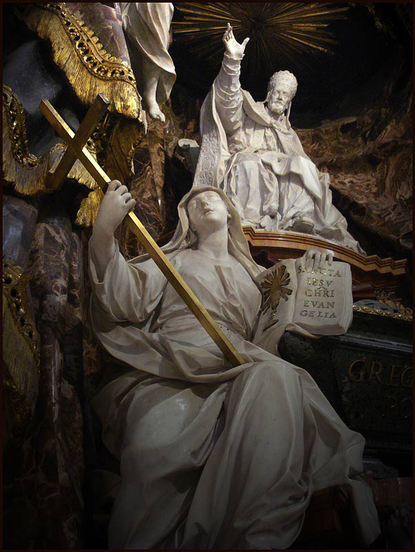 Tomb of Gregory XV, detail